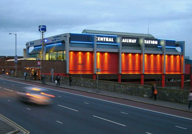 Belfast Central railway station